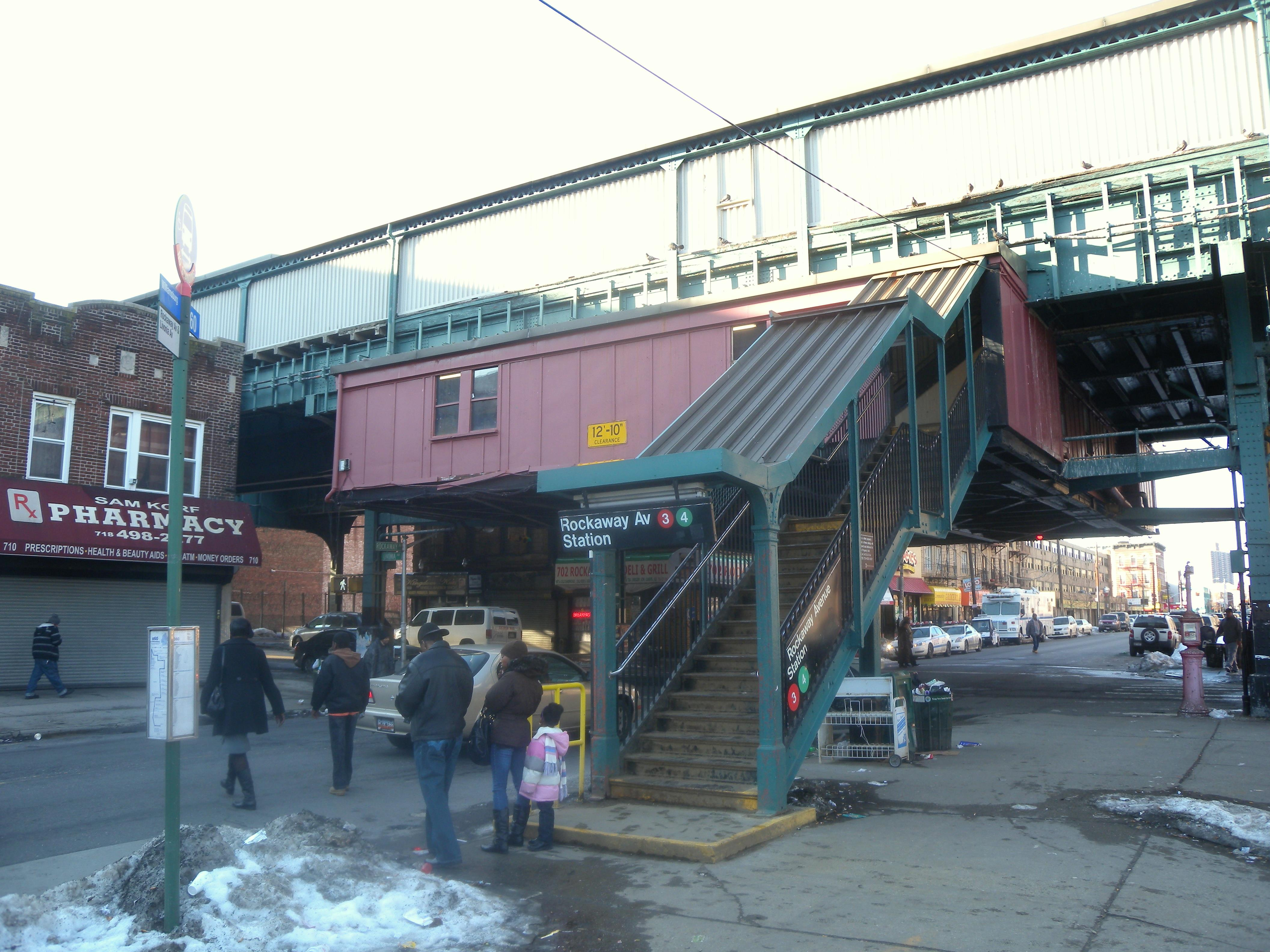 Looking northwest at Rockaway Avenue IRT station on a sunny afternoon. ZIP 11212.